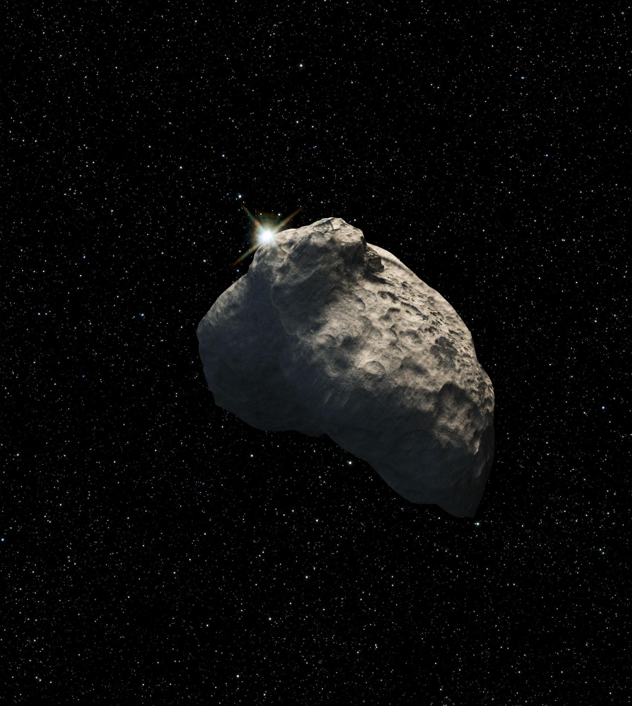 NASA's Hubble Space Telescope has discovered the smallest object ever seen in visible light in the Kuiper Belt, a vast ring of icy debris that is encircling the outer rim of the solar system just beyond Neptune. This artist's concept of the needle-in-a-haystack object found by Hubble is only 3,200 feet across and a whopping 4.2 billion miles away. The smallest Kuiper Belt Object (KBO) seen previously in reflected light is roughly 30 miles across, or 50 times larger. Hubble observations of nearby stars show that a number of them have Kuiper Belt-like disks of icy debris encircling them. These disks are the remnants of planetary formation. Researchers surmise that over billions of years the debris should collide, grinding the KBO-type objects down to ever smaller pieces that were not part of the original Kuiper Belt population. The finding is a powerful illustration of scientists' ability to use archived Hubble data to produce important new discoveries.